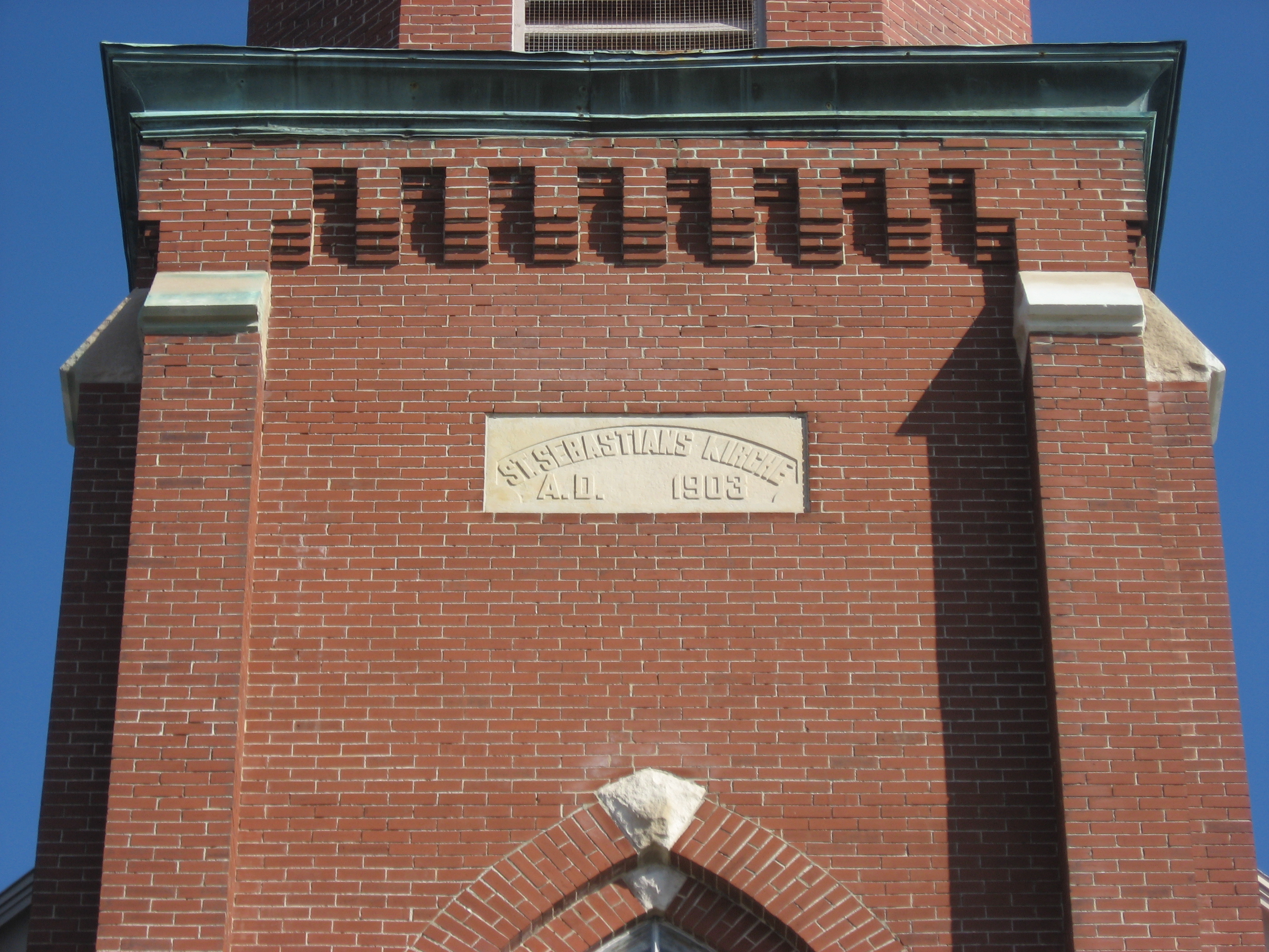 Date stone at the base of the tower of St. Sebastian's Catholic Church, located at the intersection of County Road 716A and Sebastian Road at Sebastian, an unincorporated community in Marion Township, Mercer County, Ohio, United States. Built in 1904, the church was added to the National Register of Historic Places as a part of the Cross-Tipped Churches of Ohio Thematic Resources.